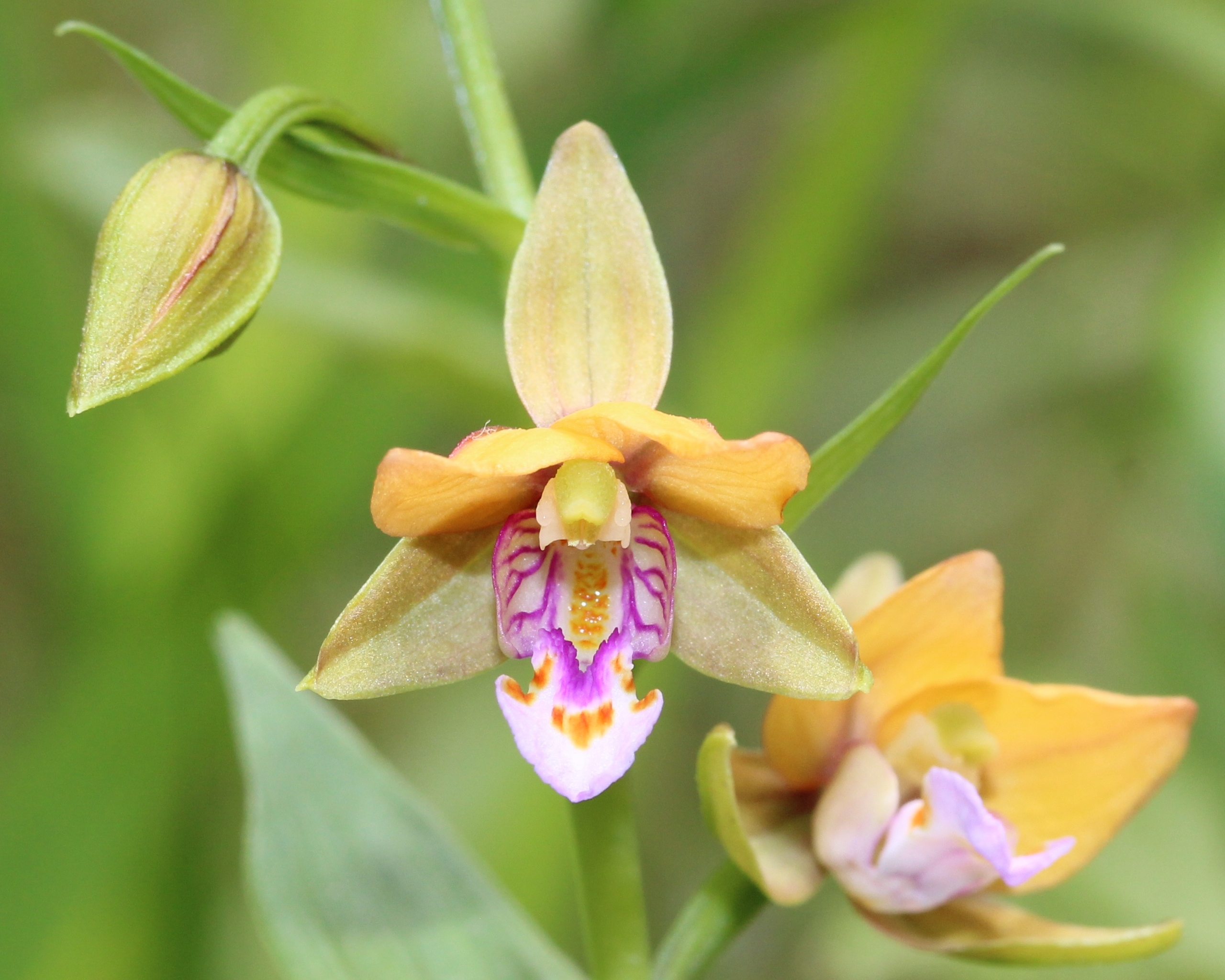 Flower of Epipactis thunbergii, in Aichi pref., Japan.